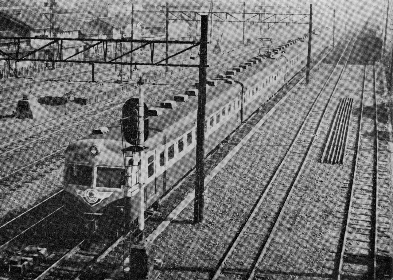 A JNR 80 series EMU on a Tokaido Main Line express service